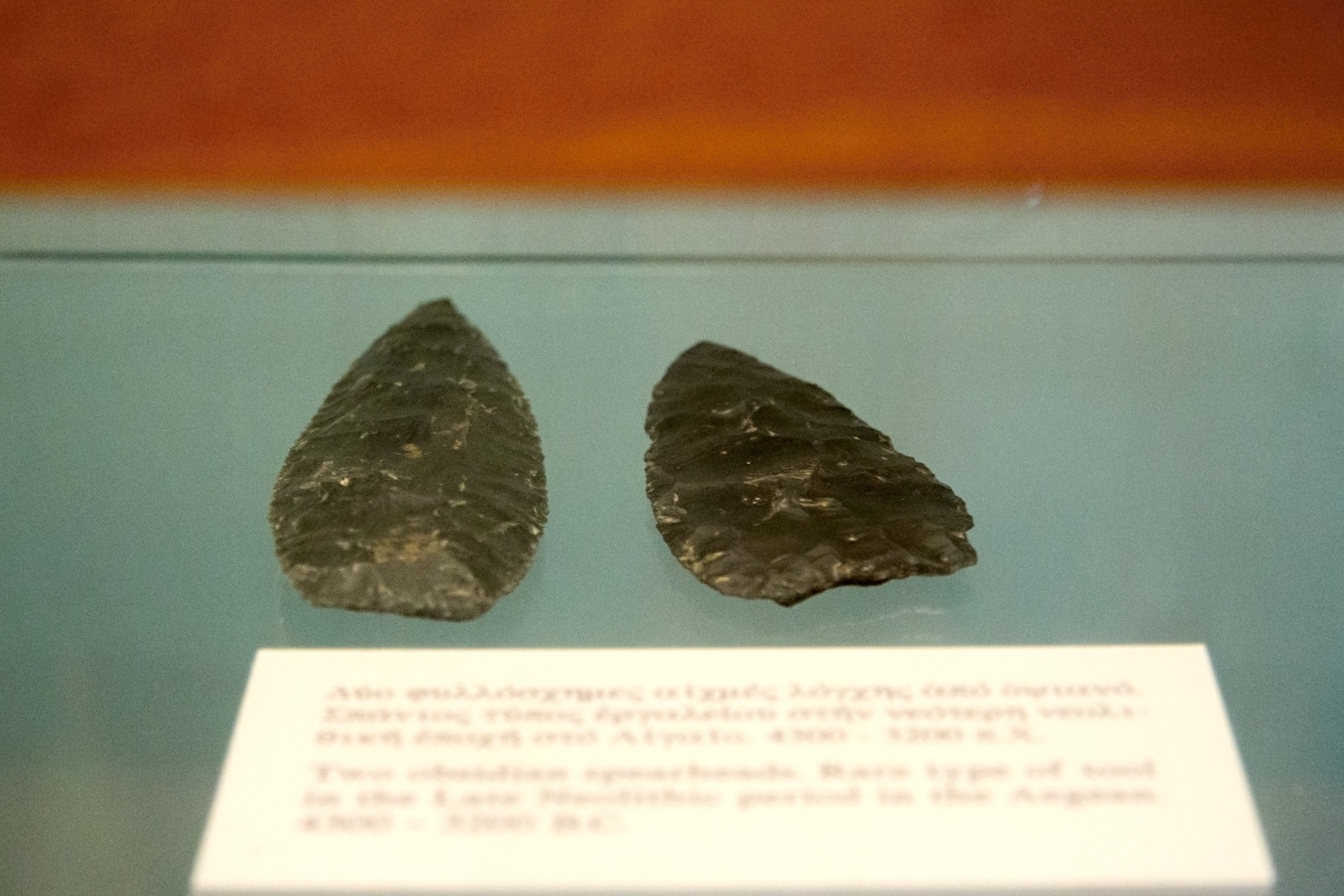 Obsidian tips, Late Neolithic period, 4300 – 3200 BC. Archaeological Museum of Naxos.